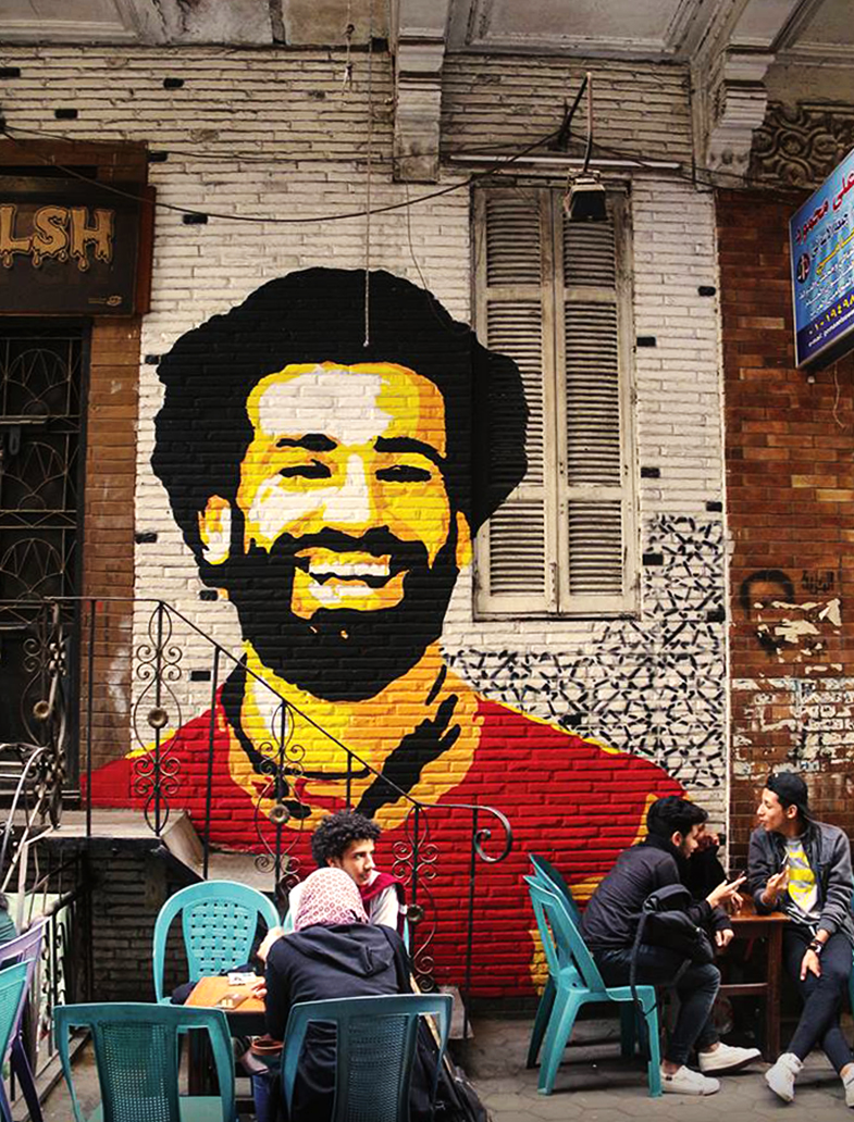 Salah Graffiti incafe, Cairo Downtown ,Egypt